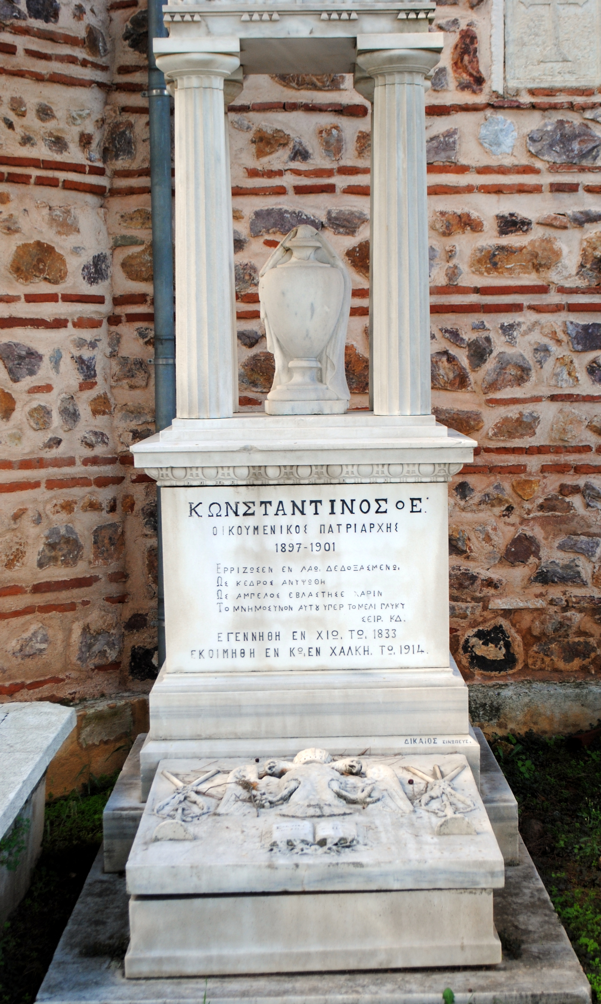 Grave of Patriarch Constantine V, in the yard of Halki Theological School, Heybeliada, Turkey